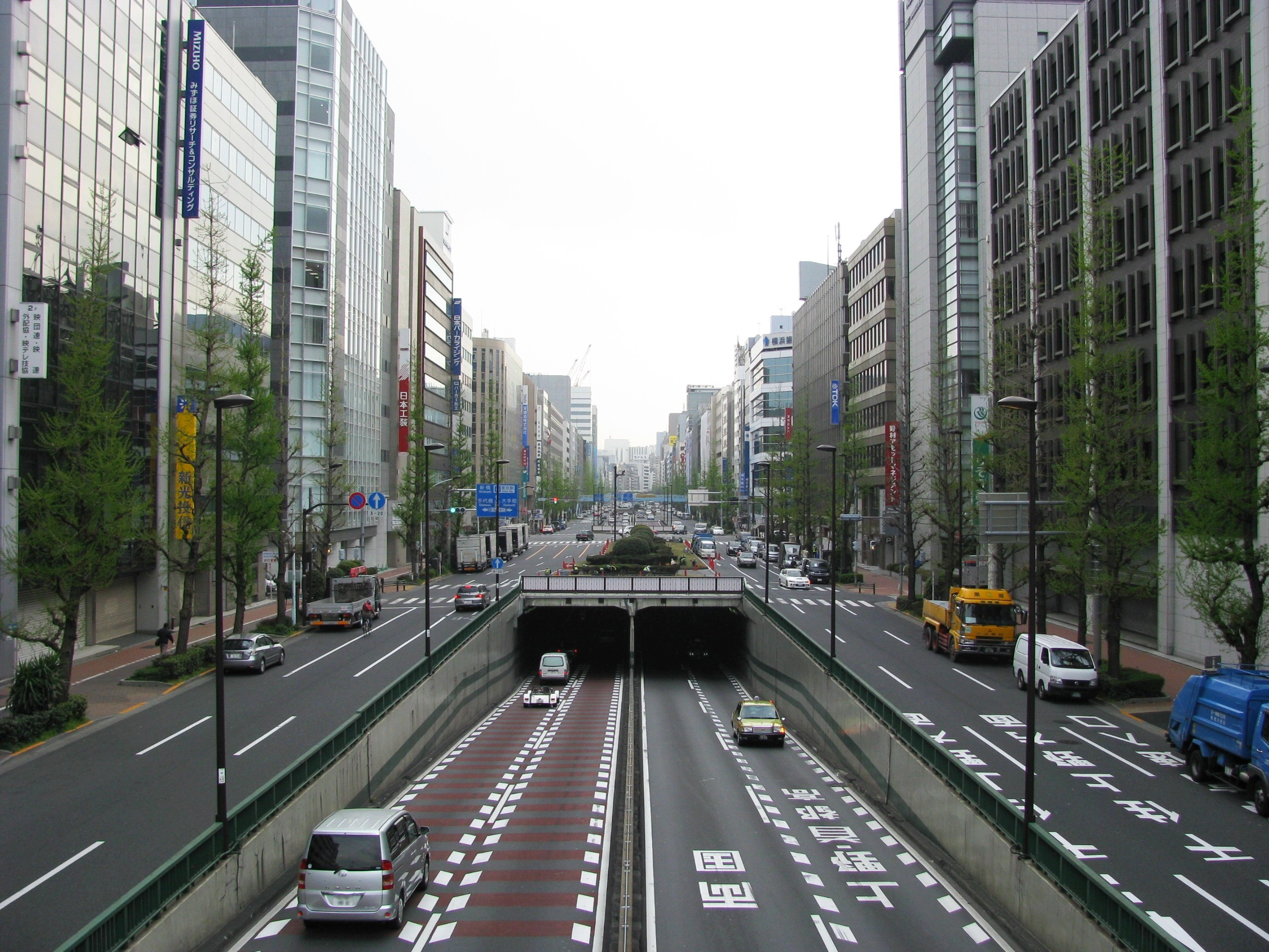 The Tokyo Prefectural Route 316. This location is Nihonbashi in Chūō, Tokyo, Japan.